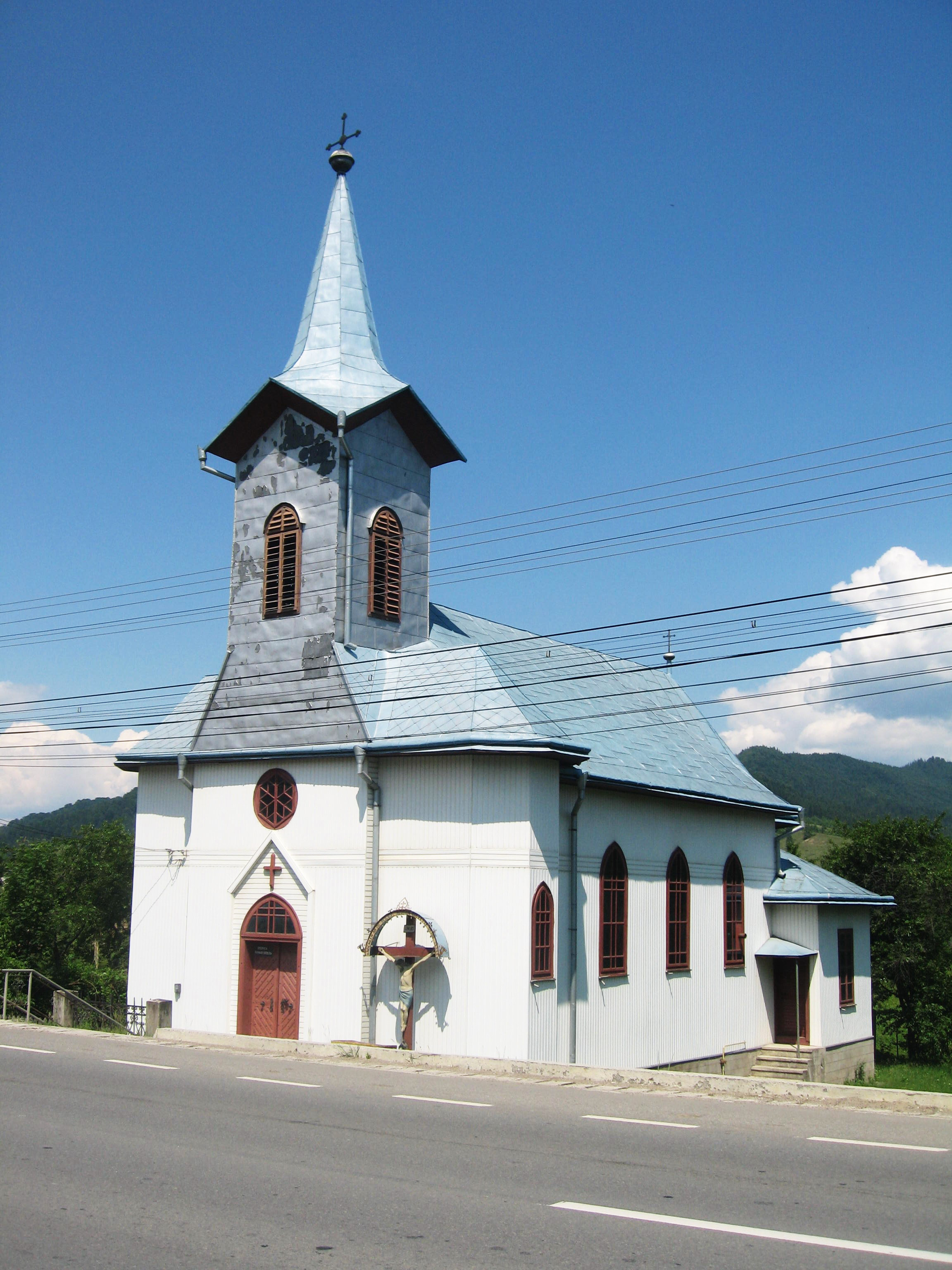 The Roman-Catholic Church in Frasin, Suceava County, Romania